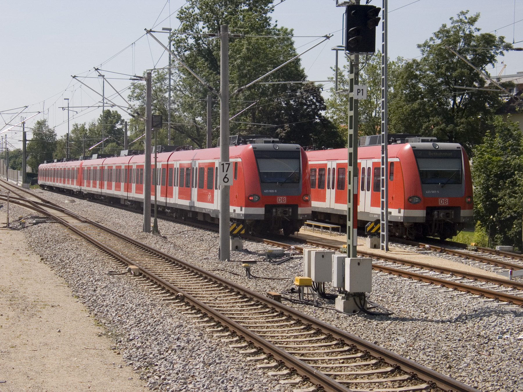 S-Bahn trains at Dachau Station